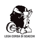 Lega Corsa di Scacchi